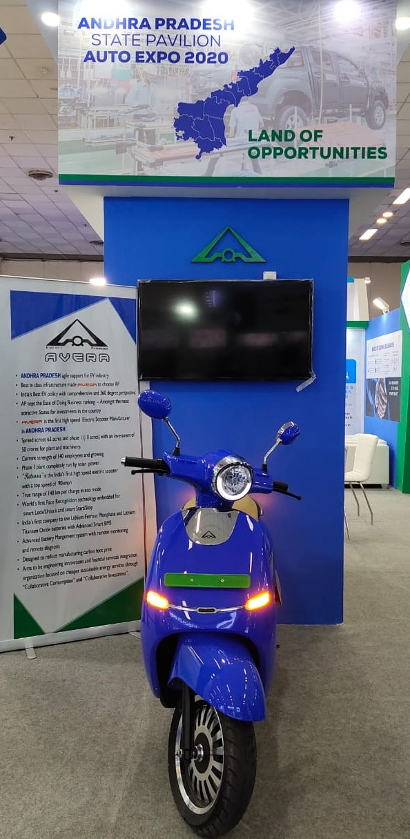 Electric Scooter at Auto Expo 2020, Delhi, INDIA.